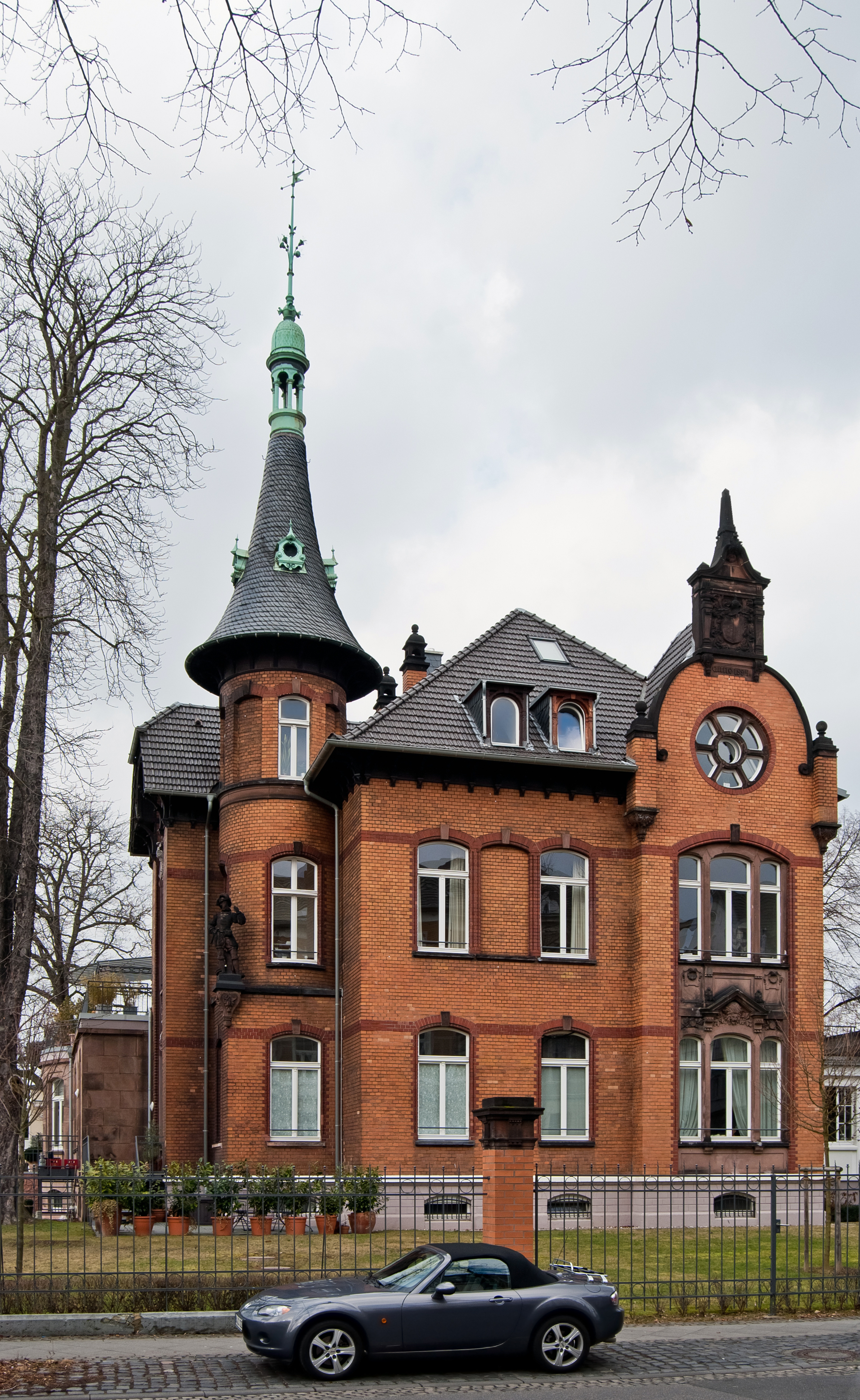 Bonn (North Rhine-Westphalia, Germany) – Bad Godesberg – mansion district – former sanatorium Dr. Schorlemmer – heritage villa in the Rheinallee (“Rhine Avenue”) – main facade This image shows a heritage building in Germany, located in the North Rhine-Westphalian city Bonn (no. 3506). This photograph was taken with a Nikon D3000